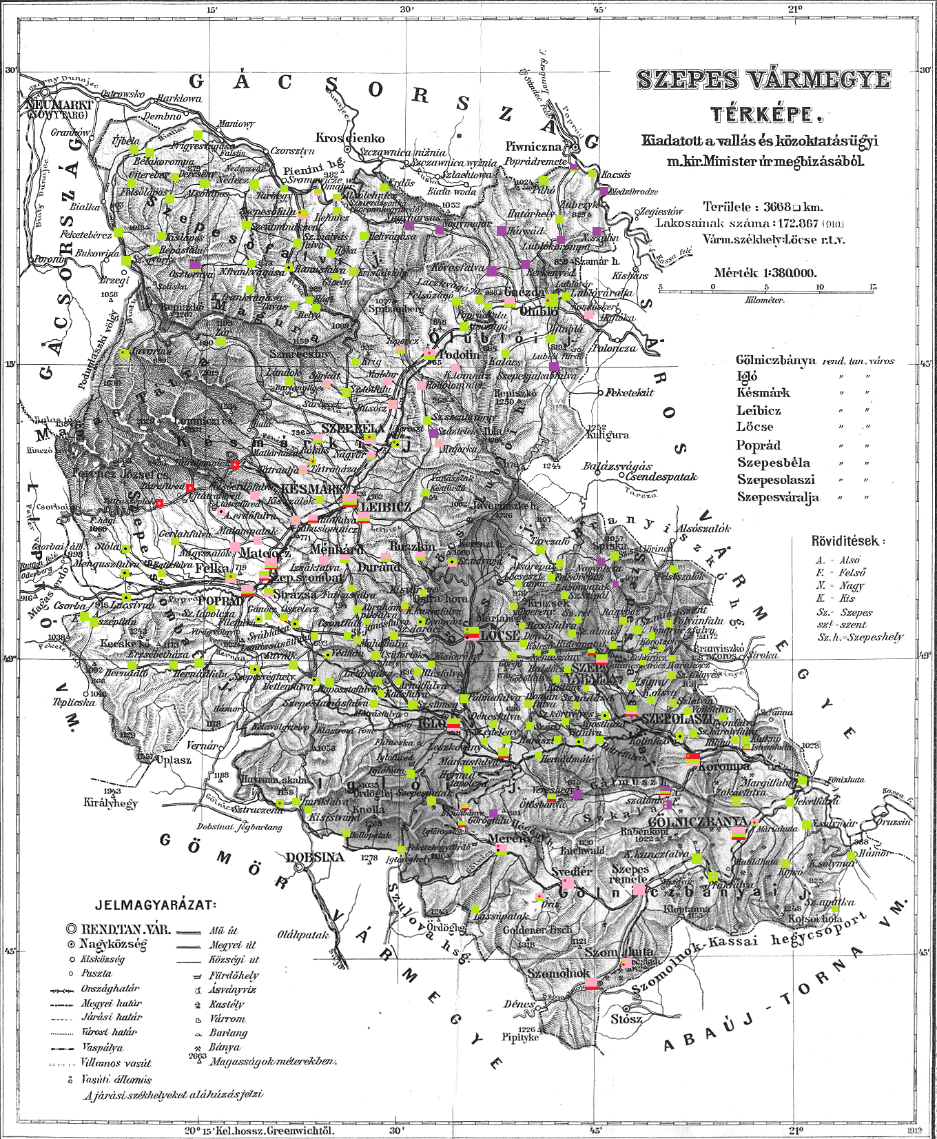 Ethnic map of the county (with data of the 1910 census). Key: light green - Slovaks; pink - Germans; red - Hungarians; violet - Ruthenians; black - Roma; orange - Polish. Coloured dots in plain rectangles imply the presence of smaller minority populations (generally more than 100 people or 10%). Multicoloured rectangles imply cities and villages with multi-ethnic populations with the order of the stripes following the ethnic composition of the settlement.